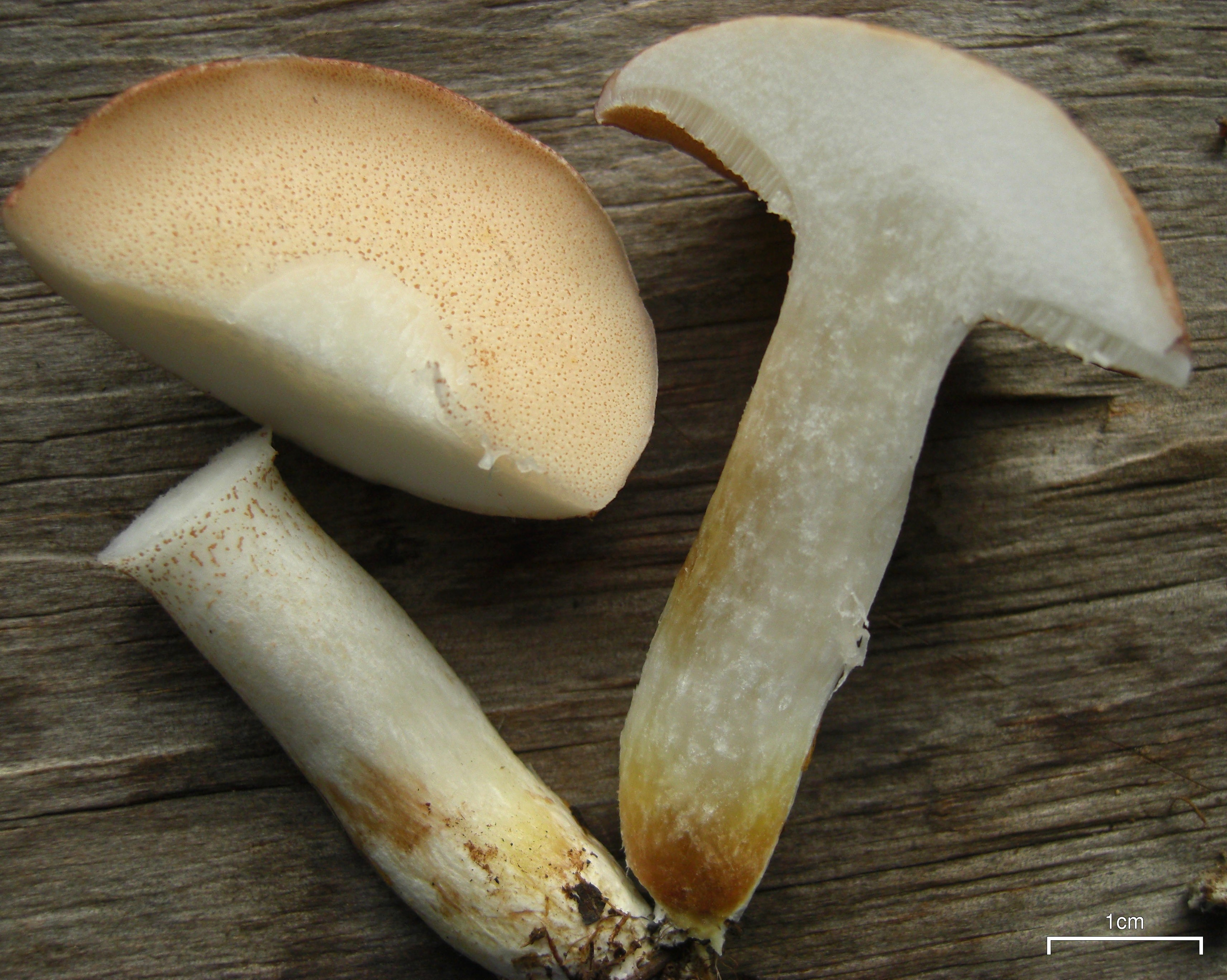 Suillus placidus (Bonord.) Singer Image location: Cabin Cove, Haywood Co., North Carolina, USA NOTES several gregarious, under white pine, by pond; CAP whitish, smooth, sticky; TUBES white, small, turning yellowish; STIPE white, smooth, dry, brown flecks at apex; FLESH white, bruises brown at base of stipe immediately and slowly brown all over outside of stipe; VEIL none; SPORES medium brown. Recognized by sight young one For more information about this, see the observation page at Mushroom Observer.